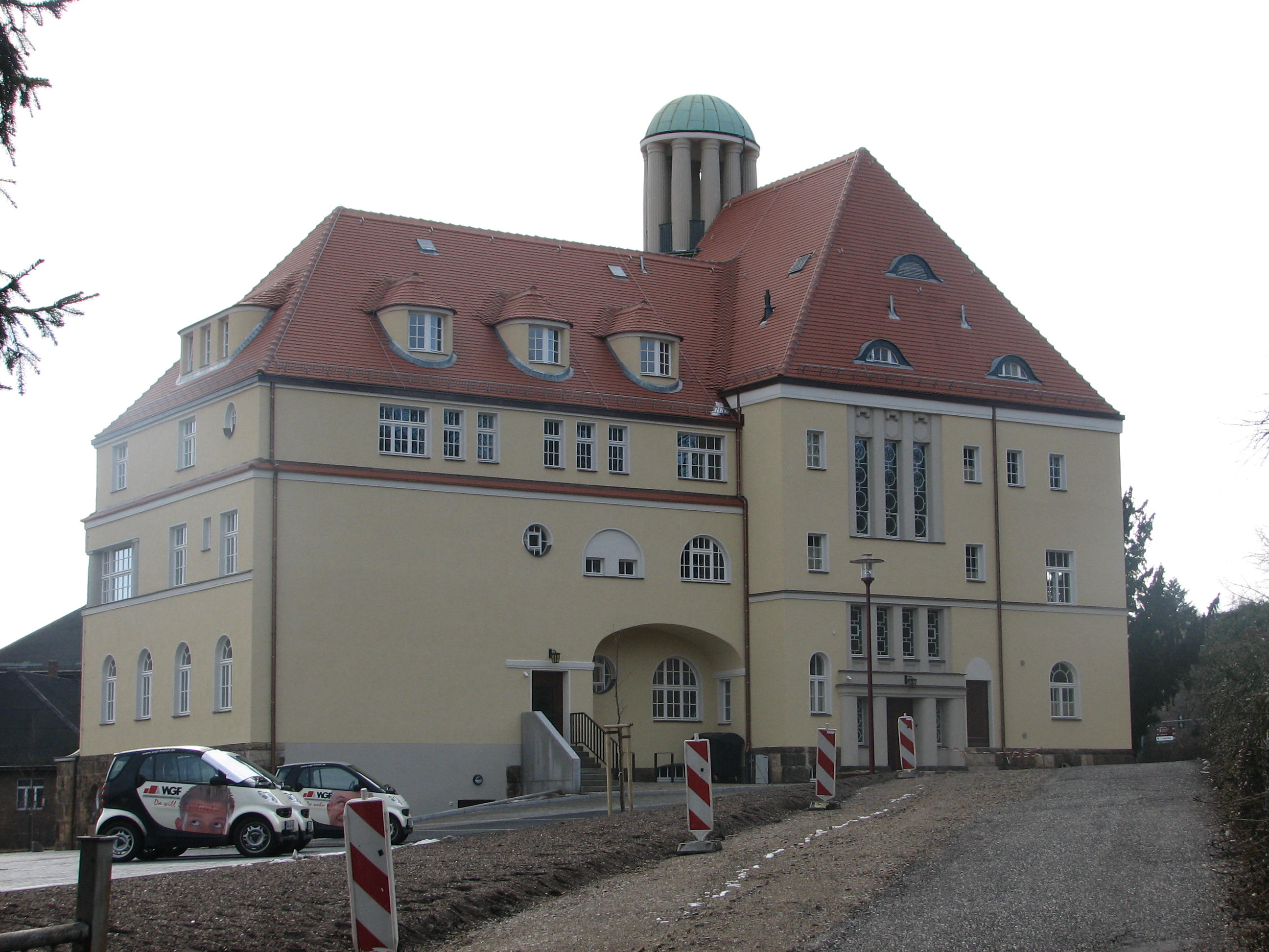 Town hall Doehlen, (subdivision of Freital). Planned by Rudolf Bitzan and built 1914–1915. On October 1, 1921 the communities Deuben, Doehlen and Potschappel signed a treaty merging into a new town, for which they adopted «Freital». 1952–1994 office of the district of Freital. 1994–2010 out of use. 2010–2012 reconstruction, which costed 2.4m €. Since 2012 office of the public housing association.